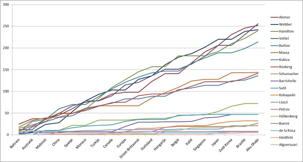 Graph showing the point progress of the top 5 drivers competing in the Formula 1 World Championship